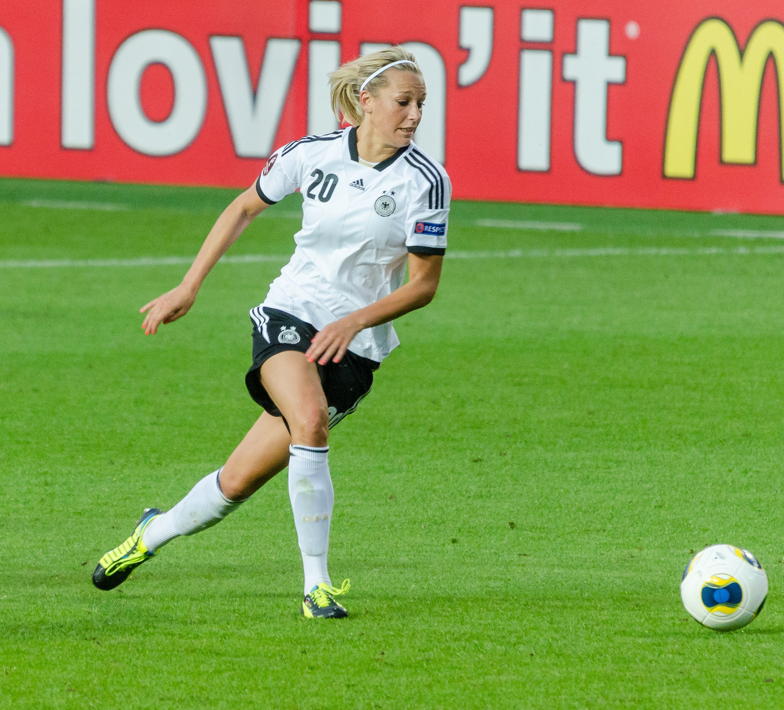 German midfielder Lena Goeßling playing in the German Women's National Team's first game of UEFA Women's Euro 2013,0-0 against the Netherlands in Växjö.